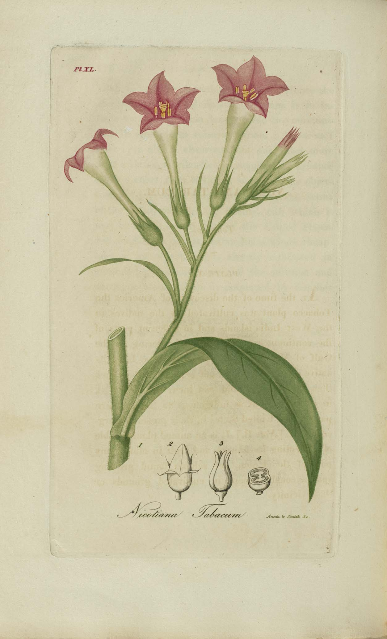 Plate illustration from: Jacob Bigelow. American medical botany: being a collection of the native medicinal plants of the United States. Boston: Cummings and Hilliard, 1817-1820. 3 volumes.